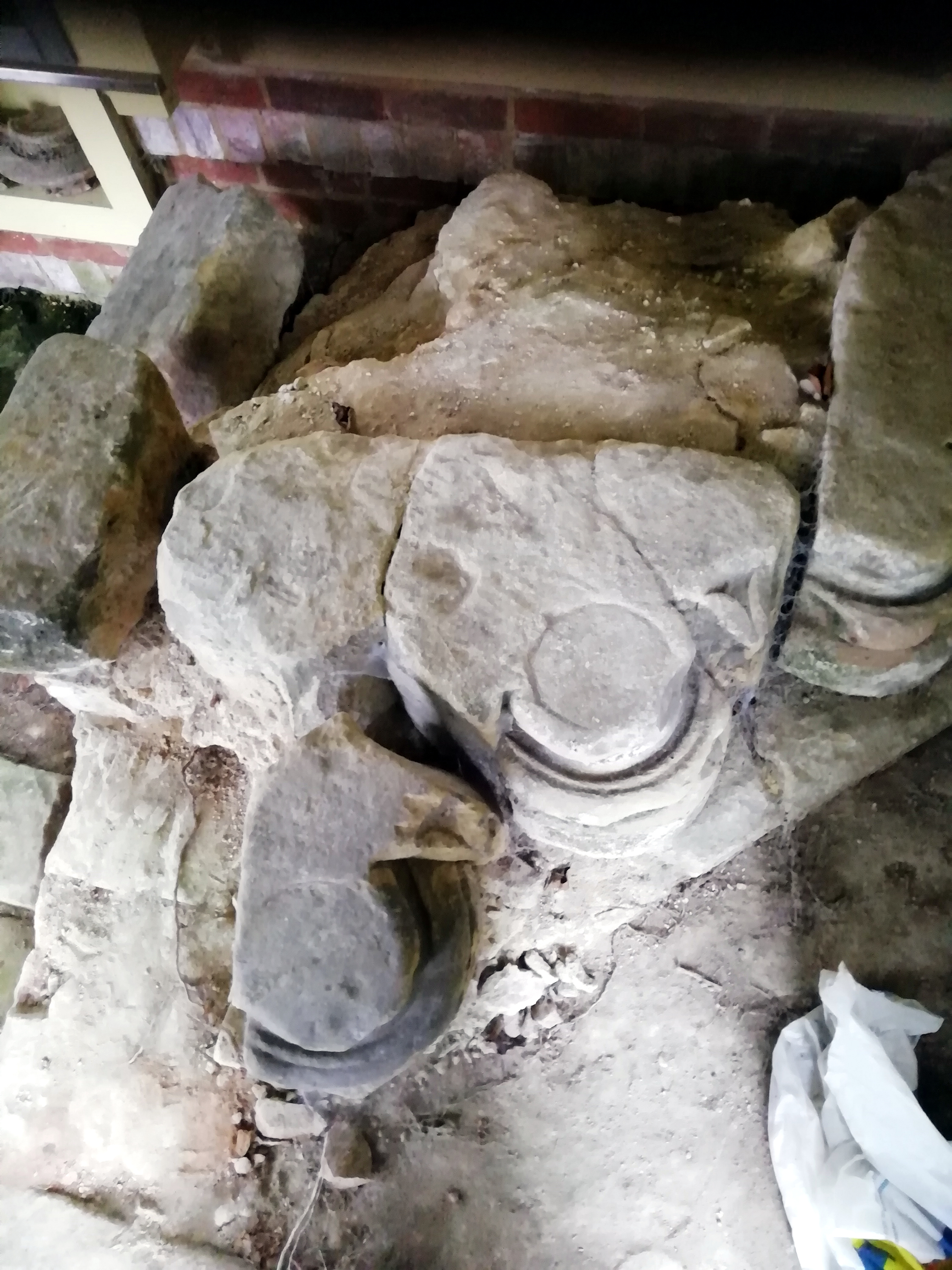 Footing of the entrance to the chapter house, apparently an elaborate marble construction, of Dale (Stanley Park) Abbey. Now in the museum at the Abbey ruins, Dale Abbey, Derbyshire.